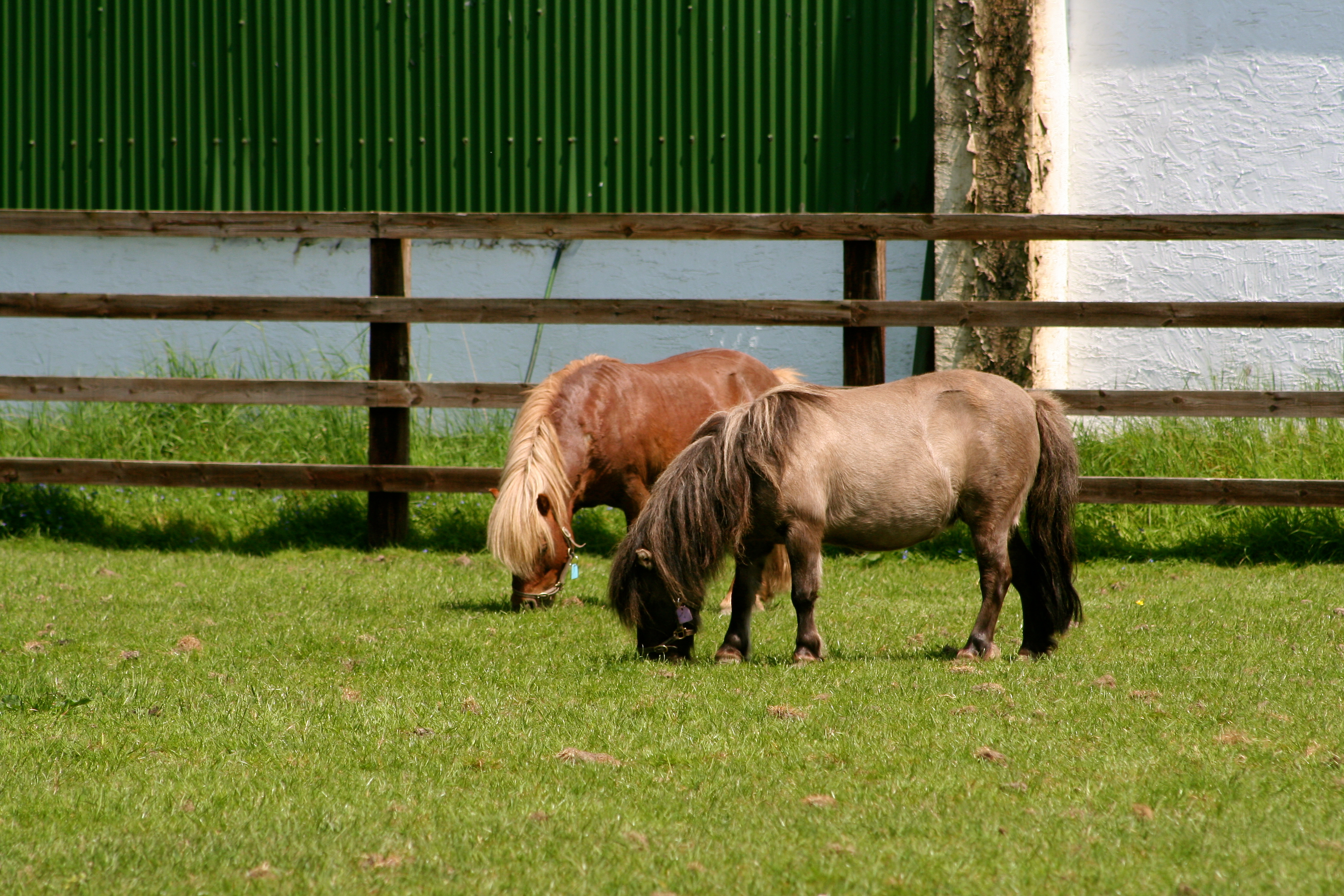 Two Falabellas at Irish National Stud in Kildare.